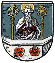 Coat of Arms of the city of Cammin (today Kamień Pomorski)